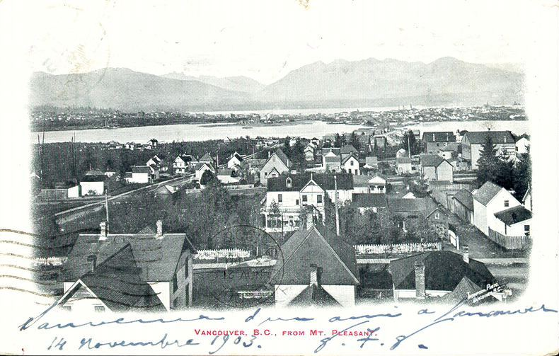 Postcard of Vancouver, British Columbia in 1903 - "Vancouver, B.C. from Mt. Pleasant"